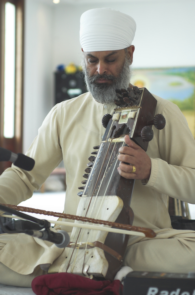 Surjeet Singh plays sarangi